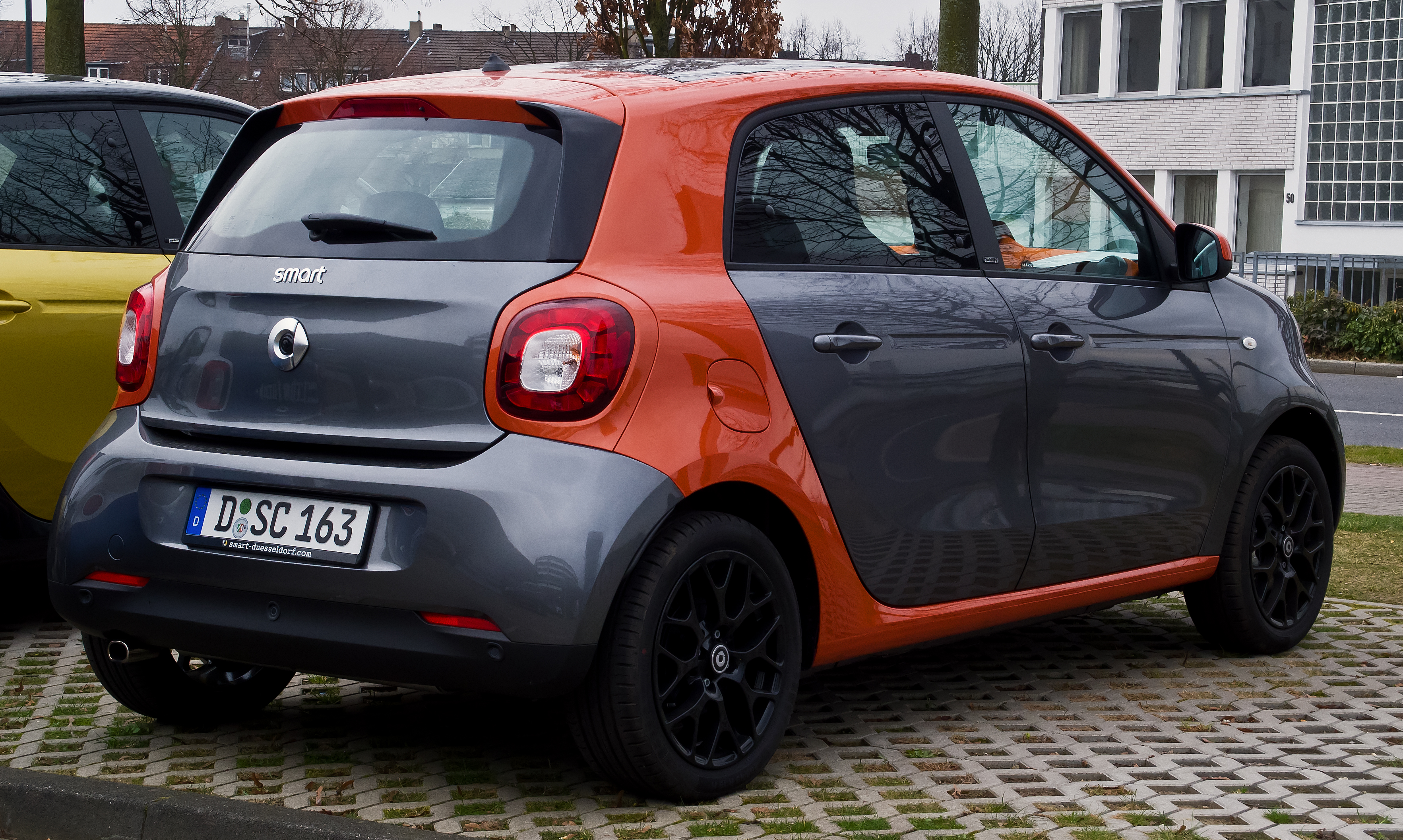 Smart Forfour 1.0 Edition #1 (W 453)